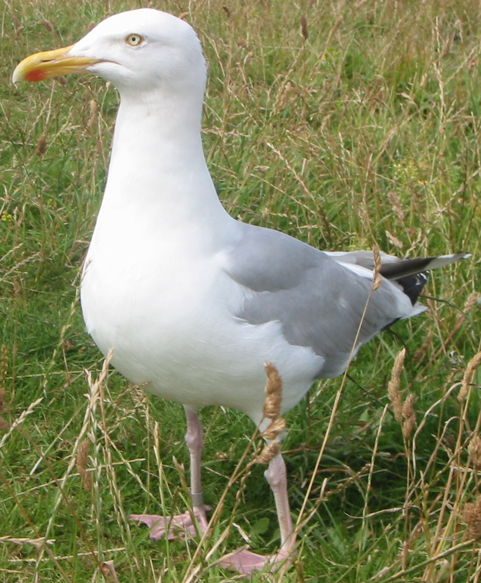 ringed seagull, Heligoland